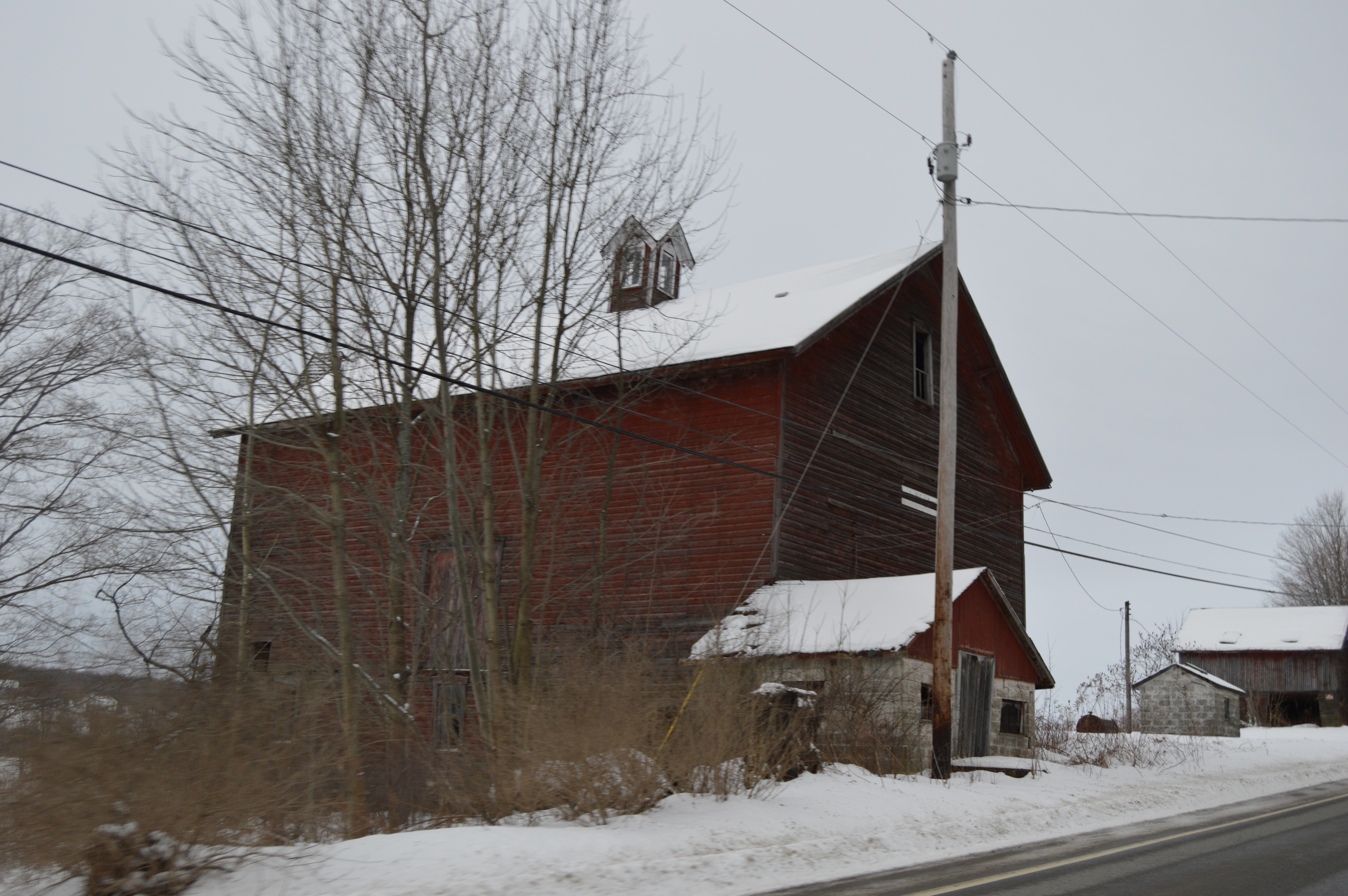 Northern side and front of a barn located on the eastern side of Pennsylvania Route 18 south of Conneautville in Summerhill Township, Crawford County, Pennsylvania, United States.